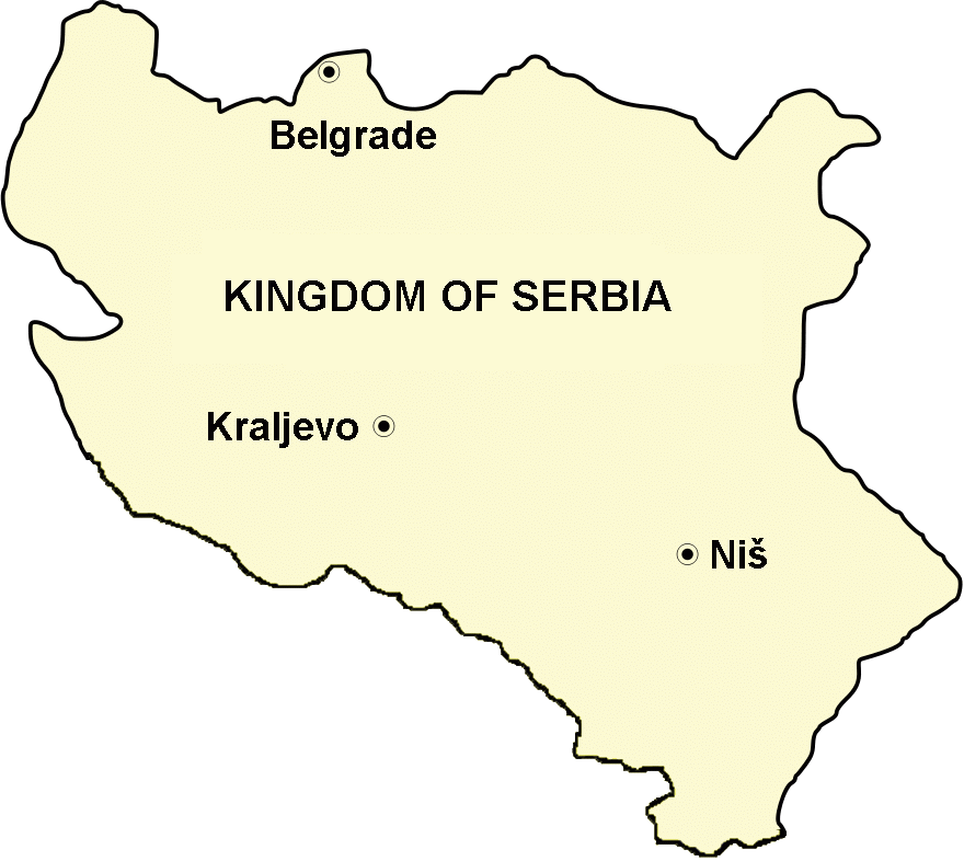 Internationally recognized borders of the Kingdom of Serbia from 1882 to 1912. It was also borders of the Principality of Serbia from 1878 to 1882.